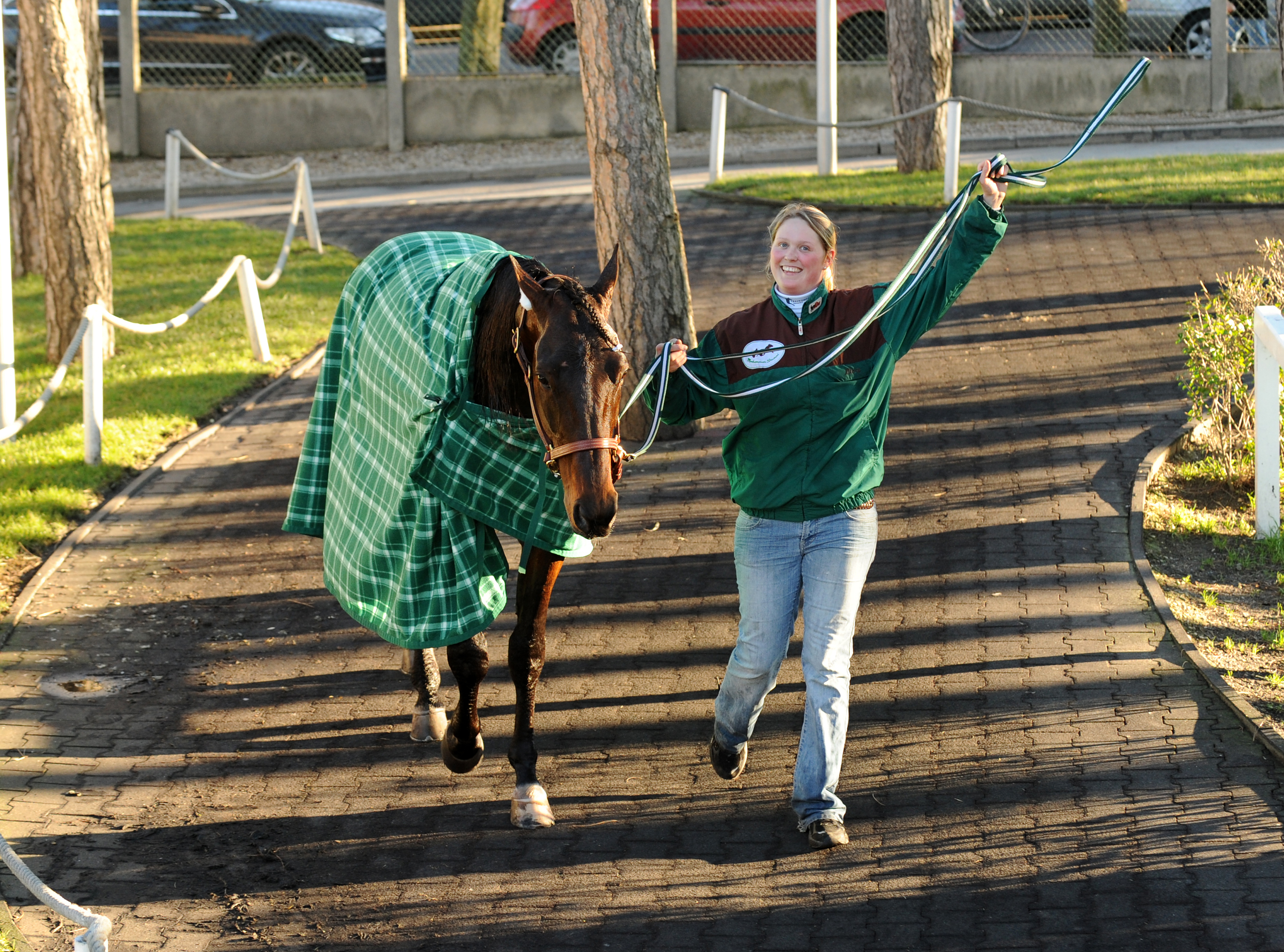 Maharajah & Lisa Skogh 2011-01-16